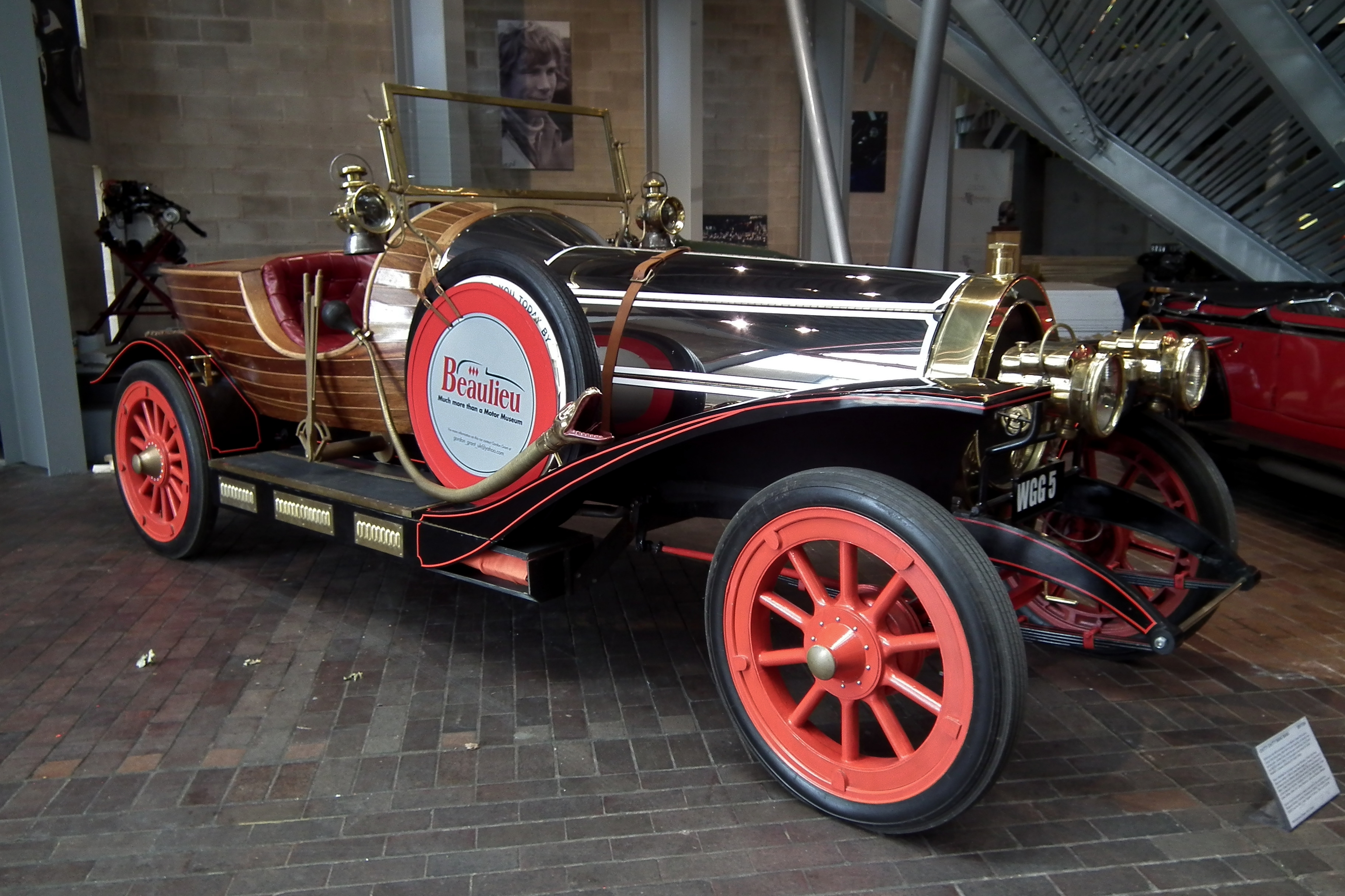 Chitty Chitty Bang Bang replica. Built especially for the museum, based on the car from the movie "Chitty Chitty Bang Bang". Taken at the National Motor Museum in Beaulieu, Hampshire, England.